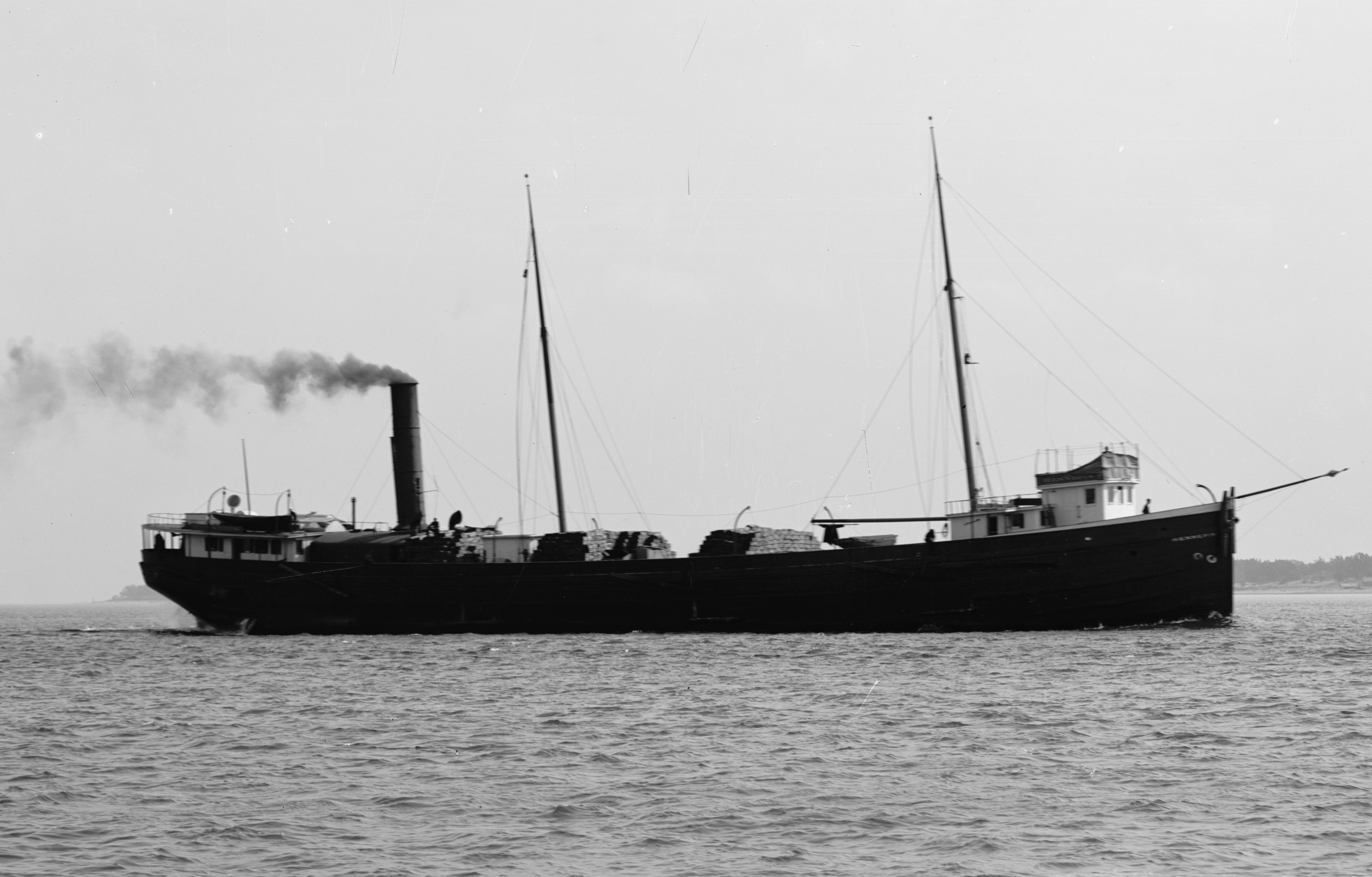 HENNEPIN Self-unloading Steamship c, 1901